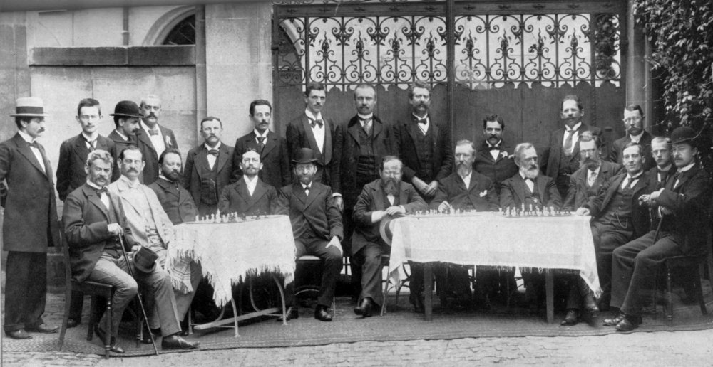 Participants of the Nuremberg 1896 chess tournament